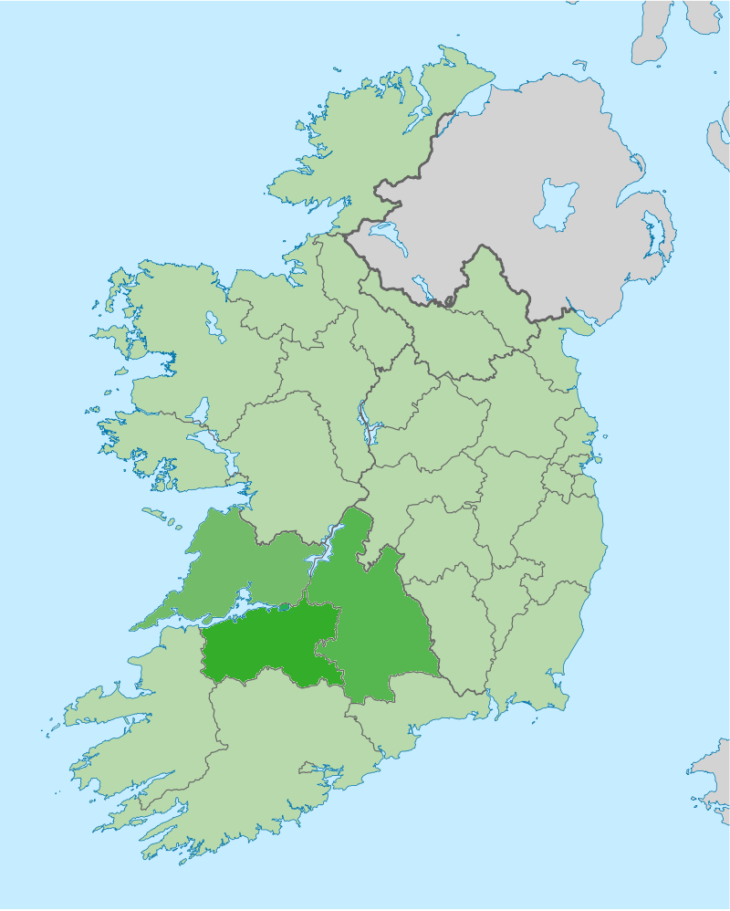 Mid West Region Ireland, 2018 boundaries